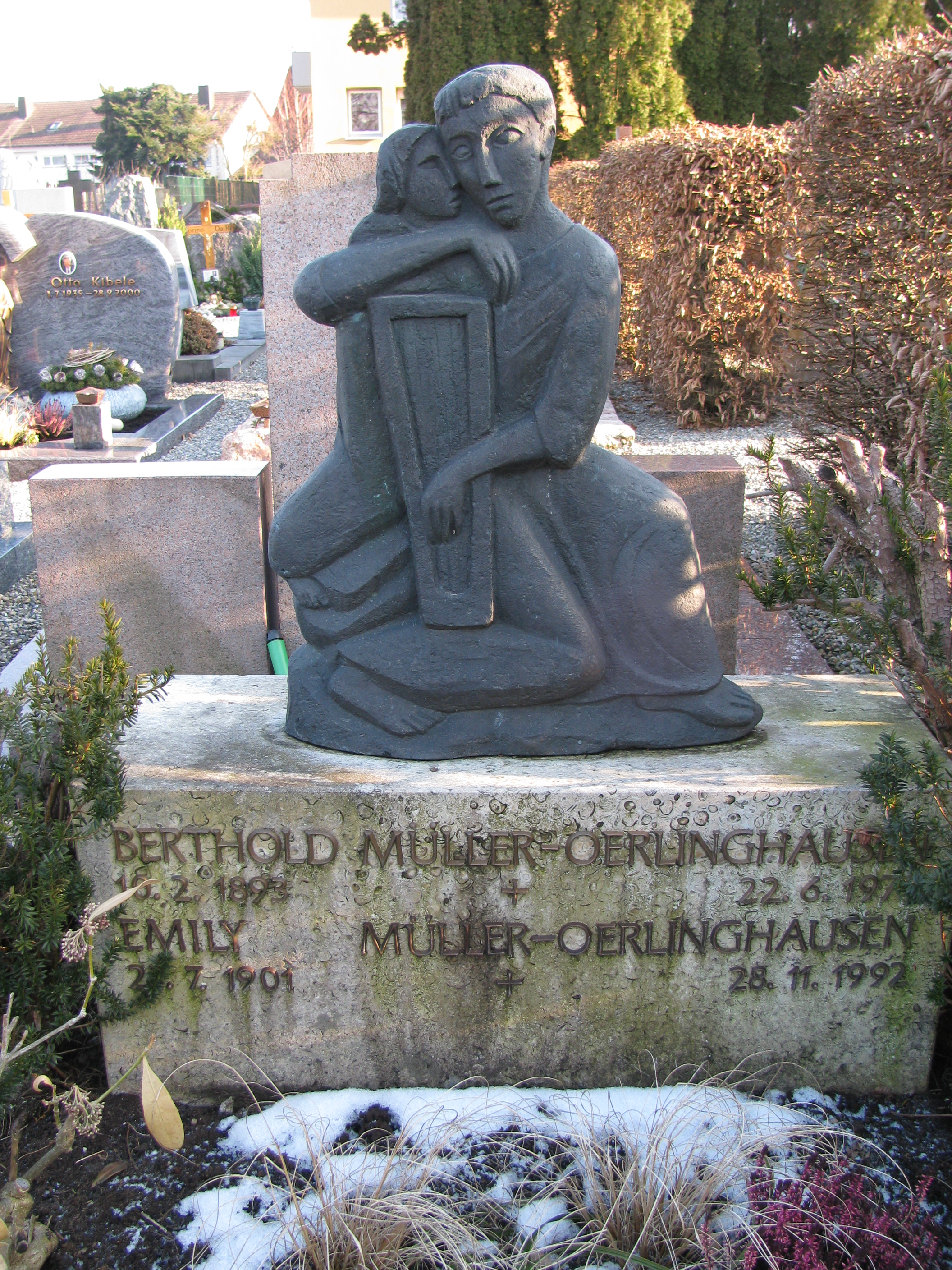 Germany - Baden-Württemberg- Bodenseekreis - Kressbronn am Bodensee: 'Alter Friedhof' (= old cemetery'), grave of Berthold and Emily Müller-Oerlinghausen